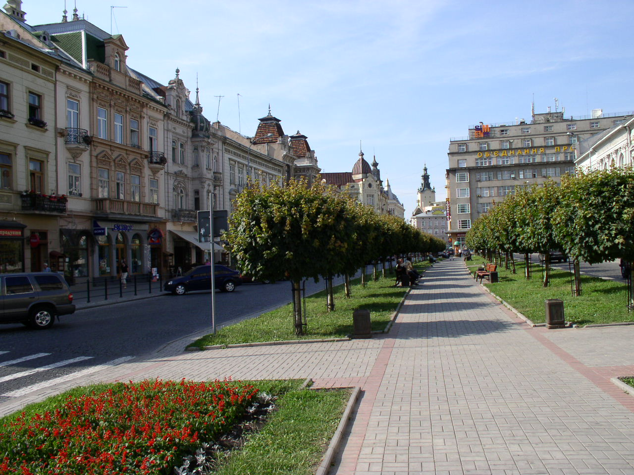 Mickiewicz square. Lviv, Ukraine.